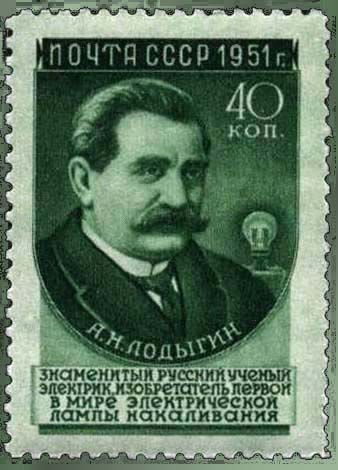 40 kopeks postage stamp, USSR 1951, Alexander Lodygin